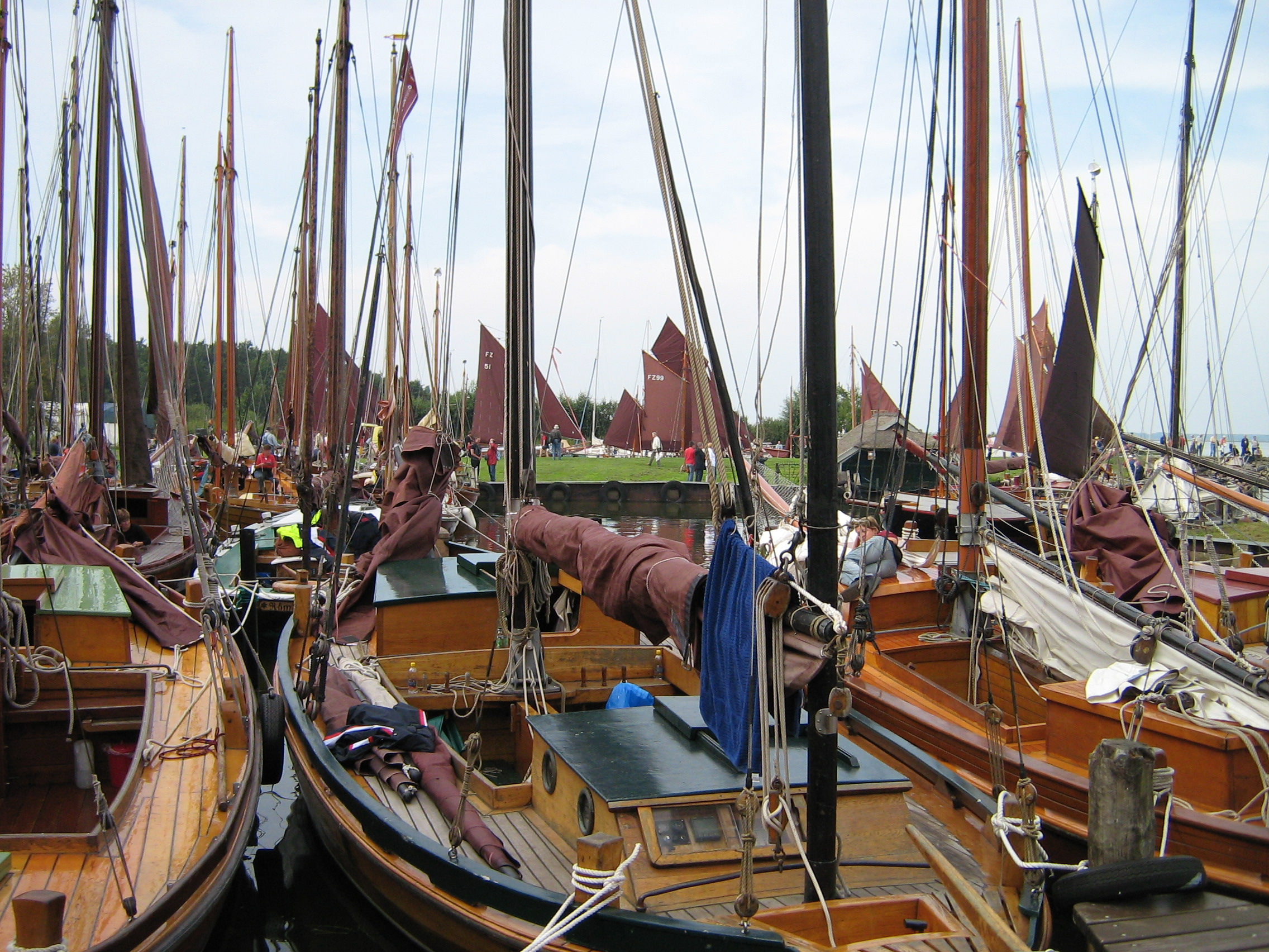 The Port of Bodstedt in Germany